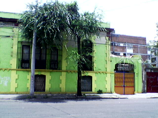 Old house newly painted, Santa Maria la Ribera, Mexico City, Maurice Marcellin